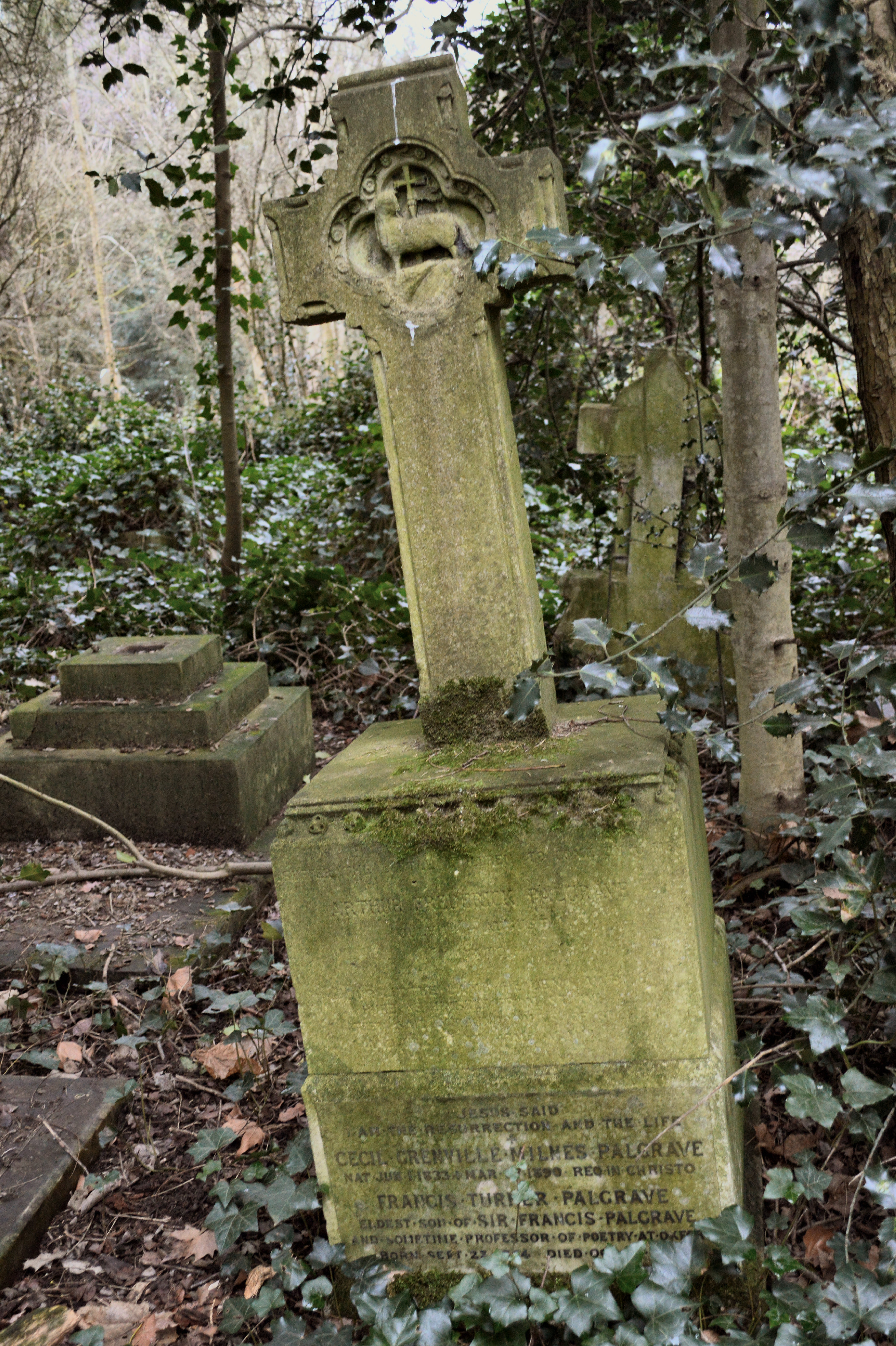 Barnes Old Cemetery, Cecil Palgrave and Francis Turner Palgrave memorial